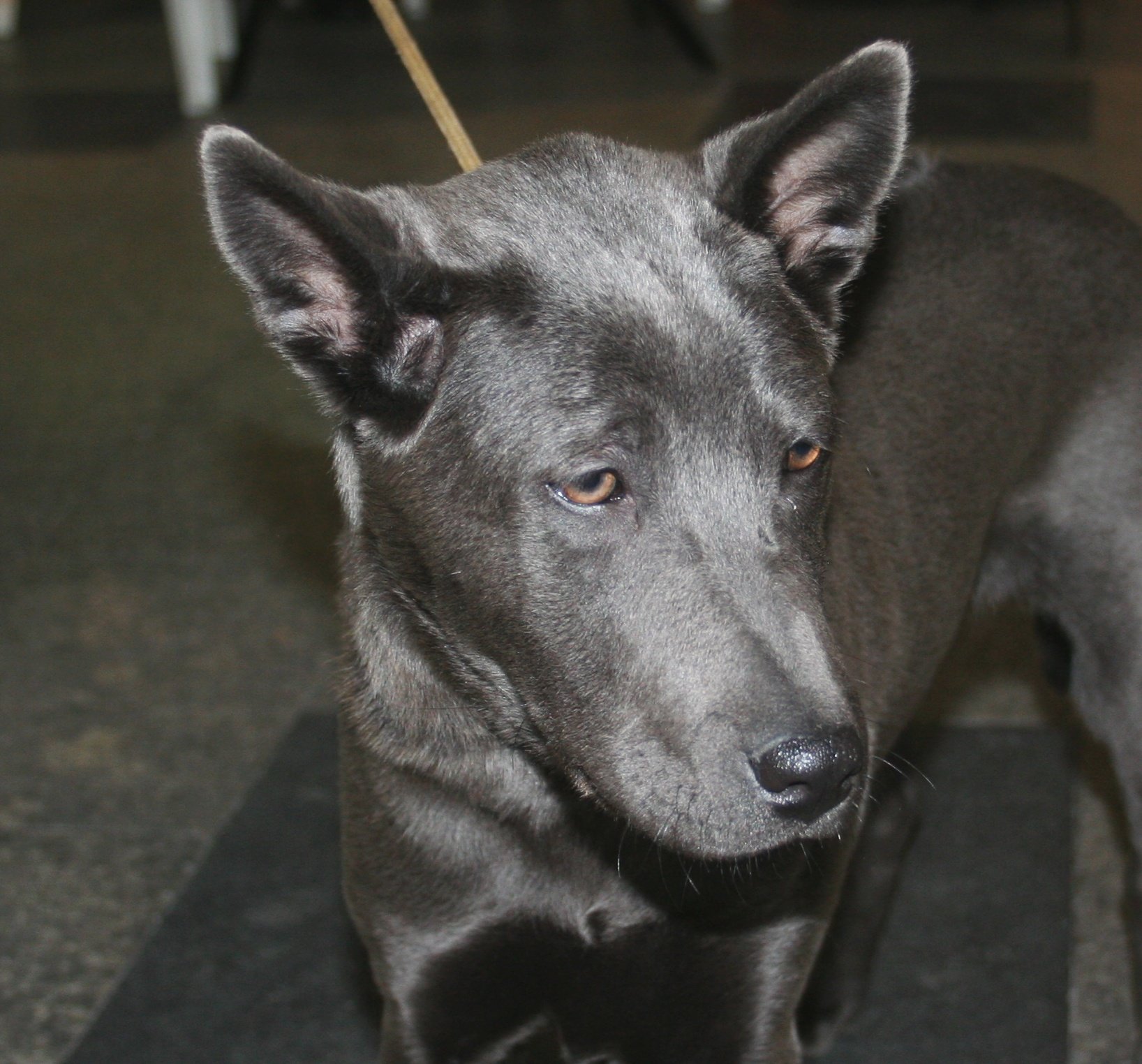 Thai Ridgeback during the international dogs show in Katowice, Poland.The owner is Aneta Kubica from Poland